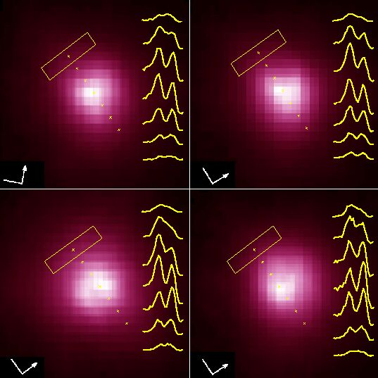 Image showing the red supergiant Betelgeuse that pulsates, swells and shrinks asymmetrically